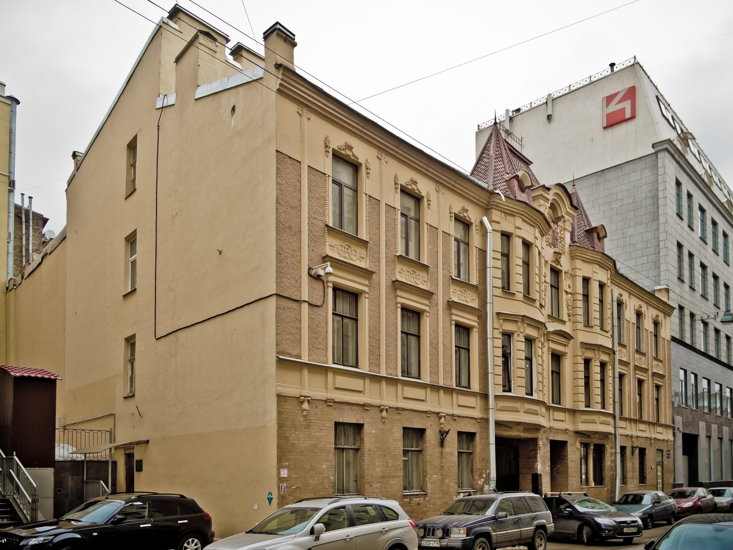 Saint Petersburg, 11, Blokhina street